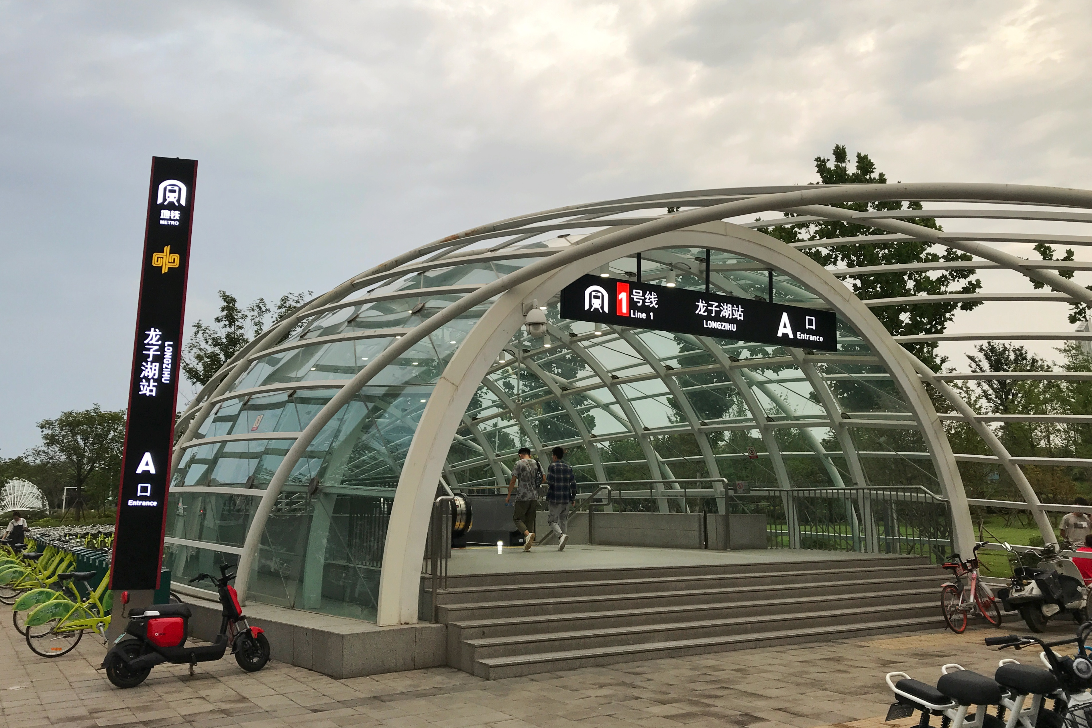 Entrance A of Zhengzhou Metro Longzihu Station